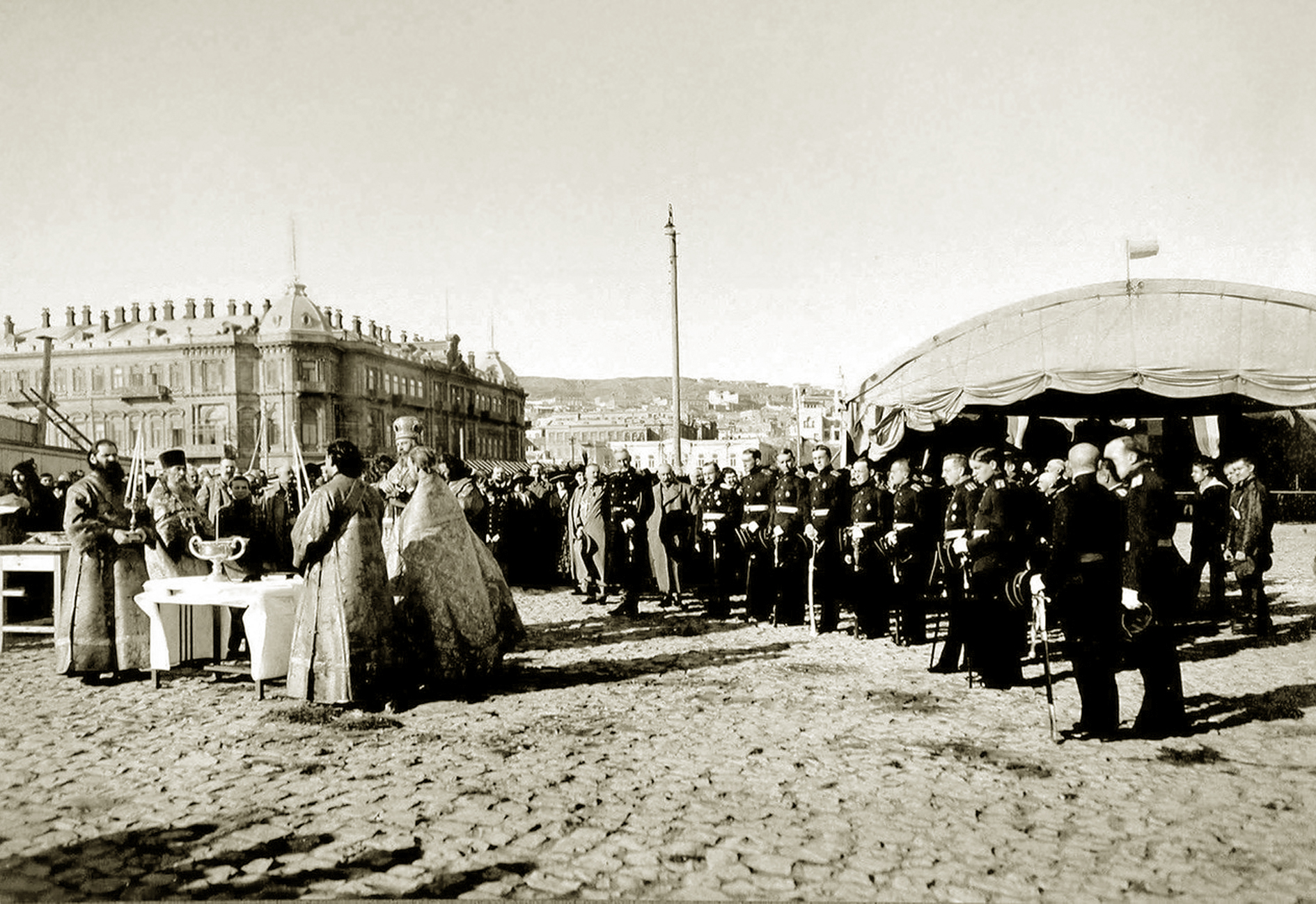 Naval Aviation Officer's School in Baku.